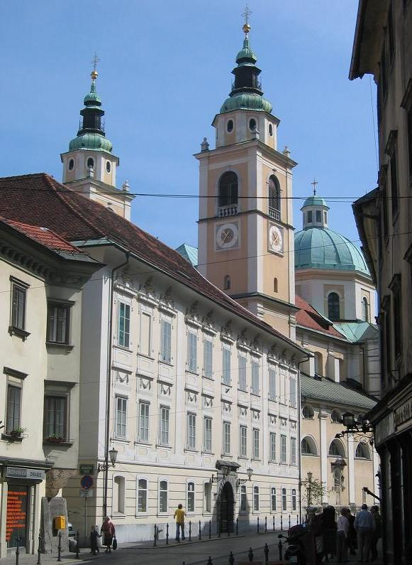 Ljubljana archbishopric with Cathedral of st. Nicholas author: Ziga 14:21, 25 April 2006 (UTC)